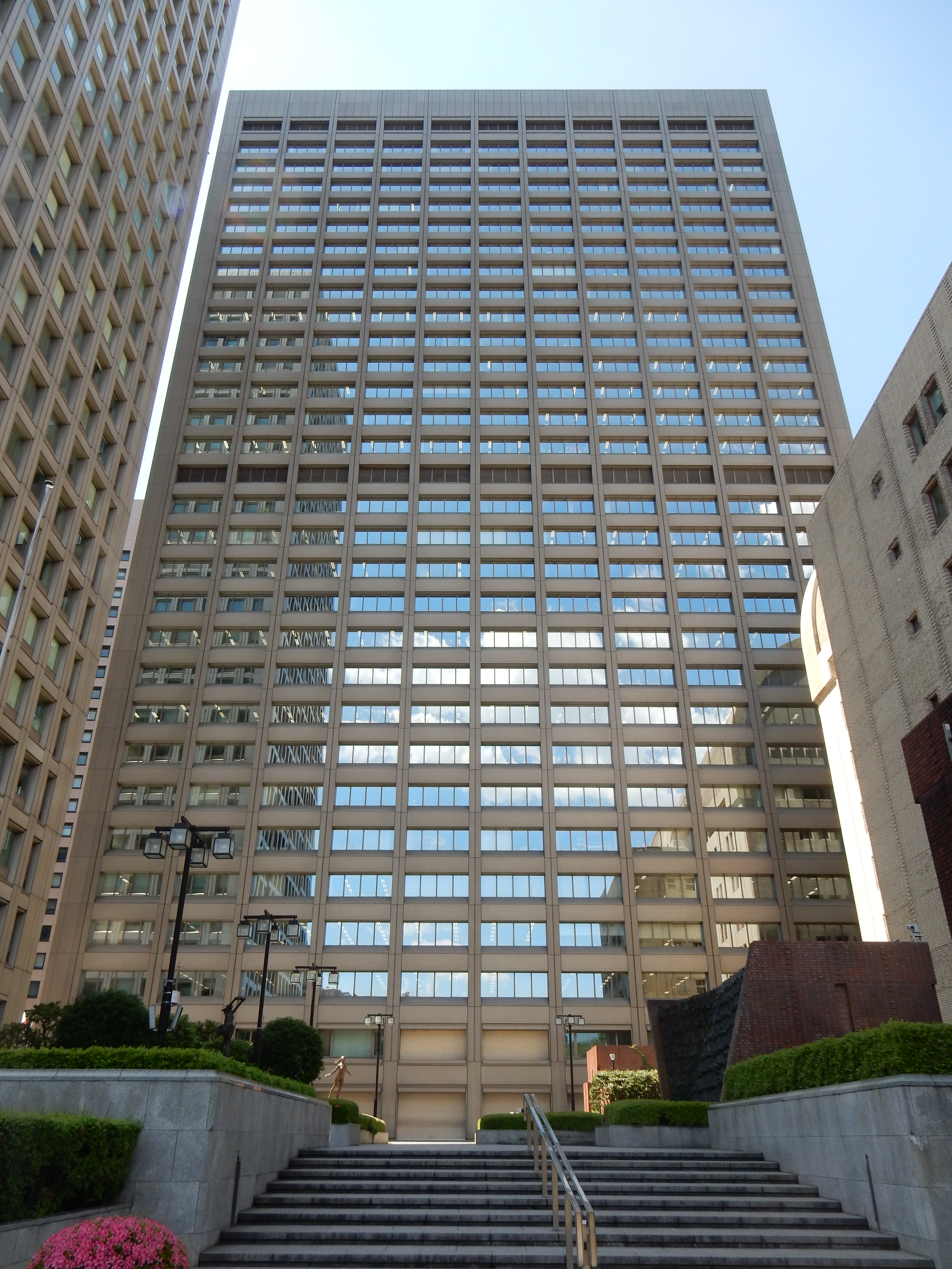 Hibiya International Building (日比谷国際ビルヂング), located at 2-2-3 Uchisaiwaicho, Chiyoda, Tokyo, Japan